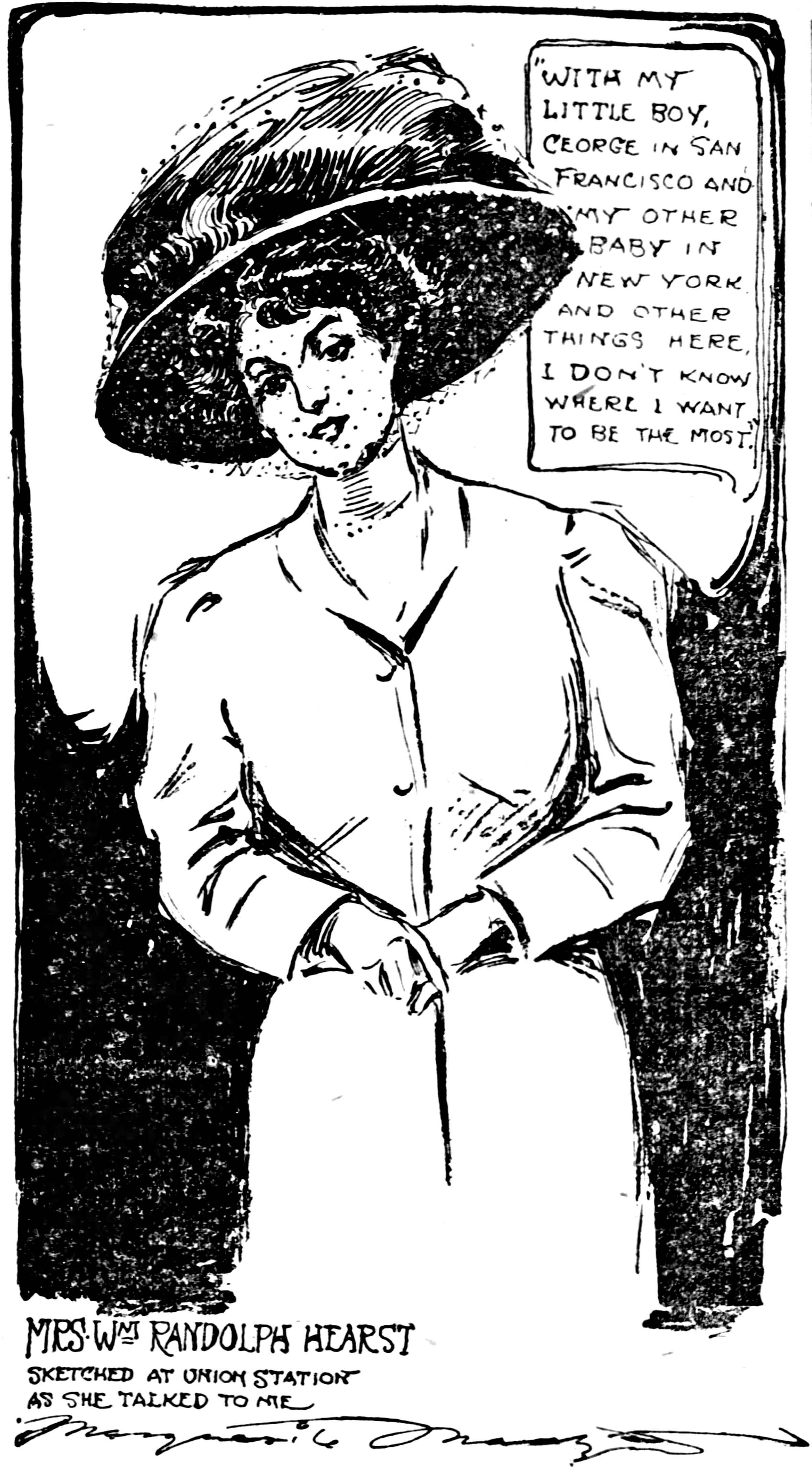 Millicent Hearst, wearing a hat with a veil, poses for Marguerite Martyn during a brief stop at Union Station in St. Louis on her way from New York to California, September, 1908. Includes a brief quotation from her.